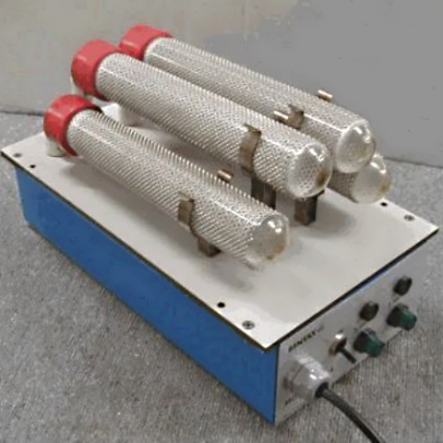 Ionization unit with ionization tubes.